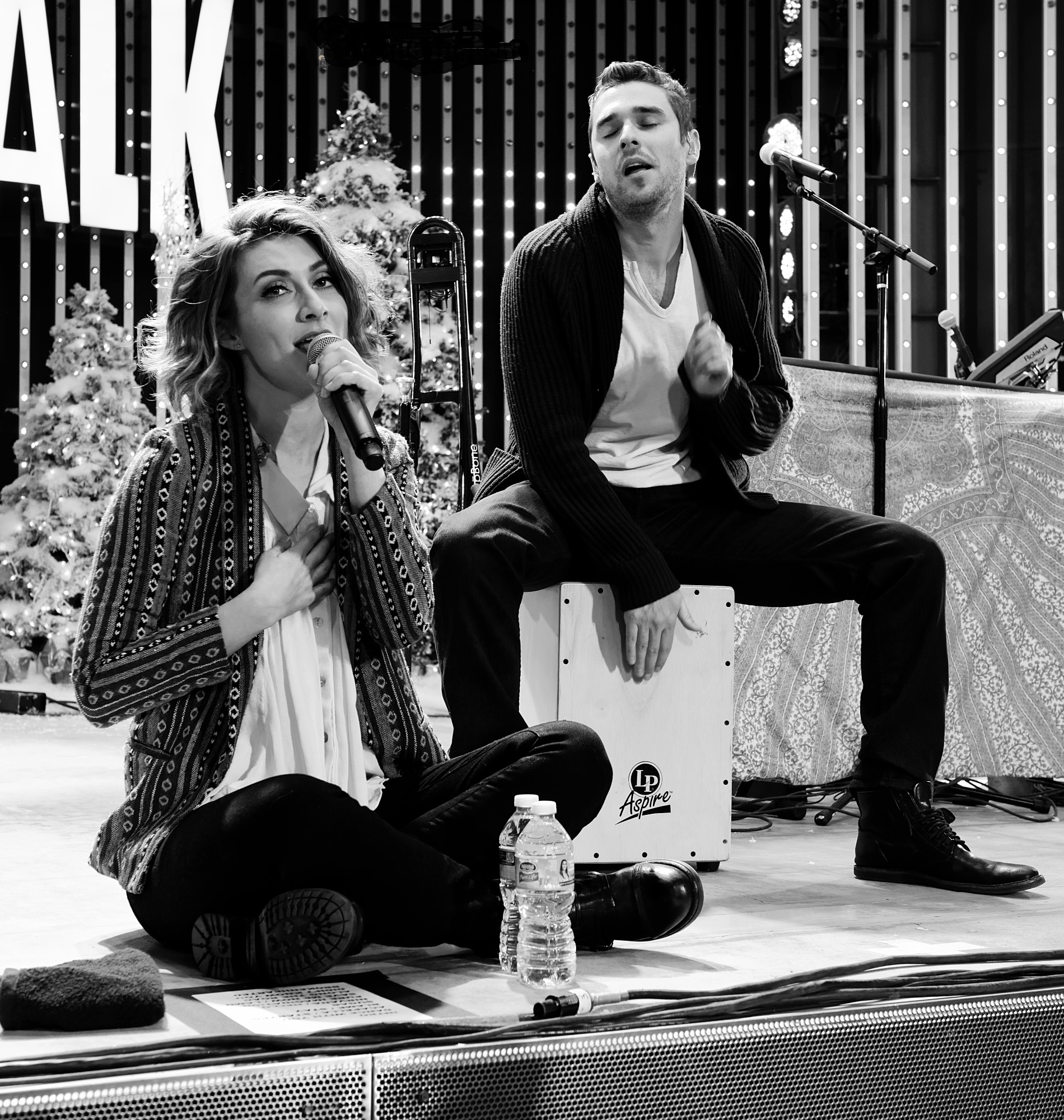 Karmin performing at 5 Towers on CityWalk in 2015